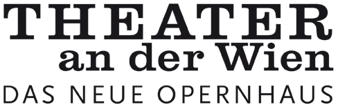 Theater an der Wien